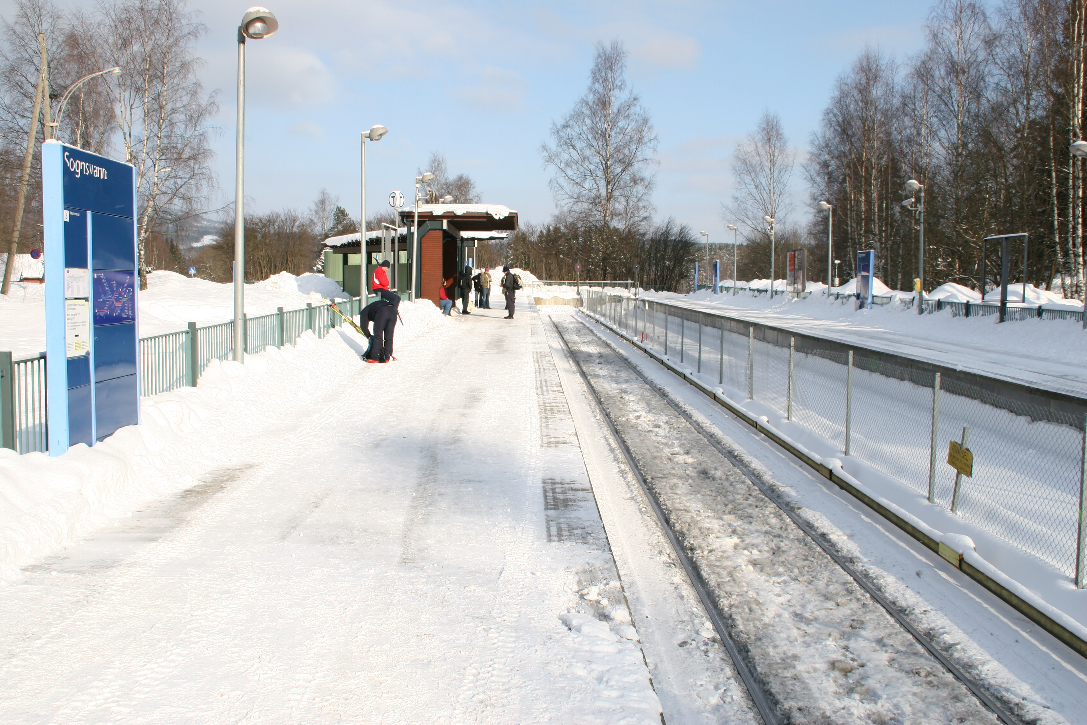 The Sognsvann subway station. Date: 2006-03-10. Photographer: eao.